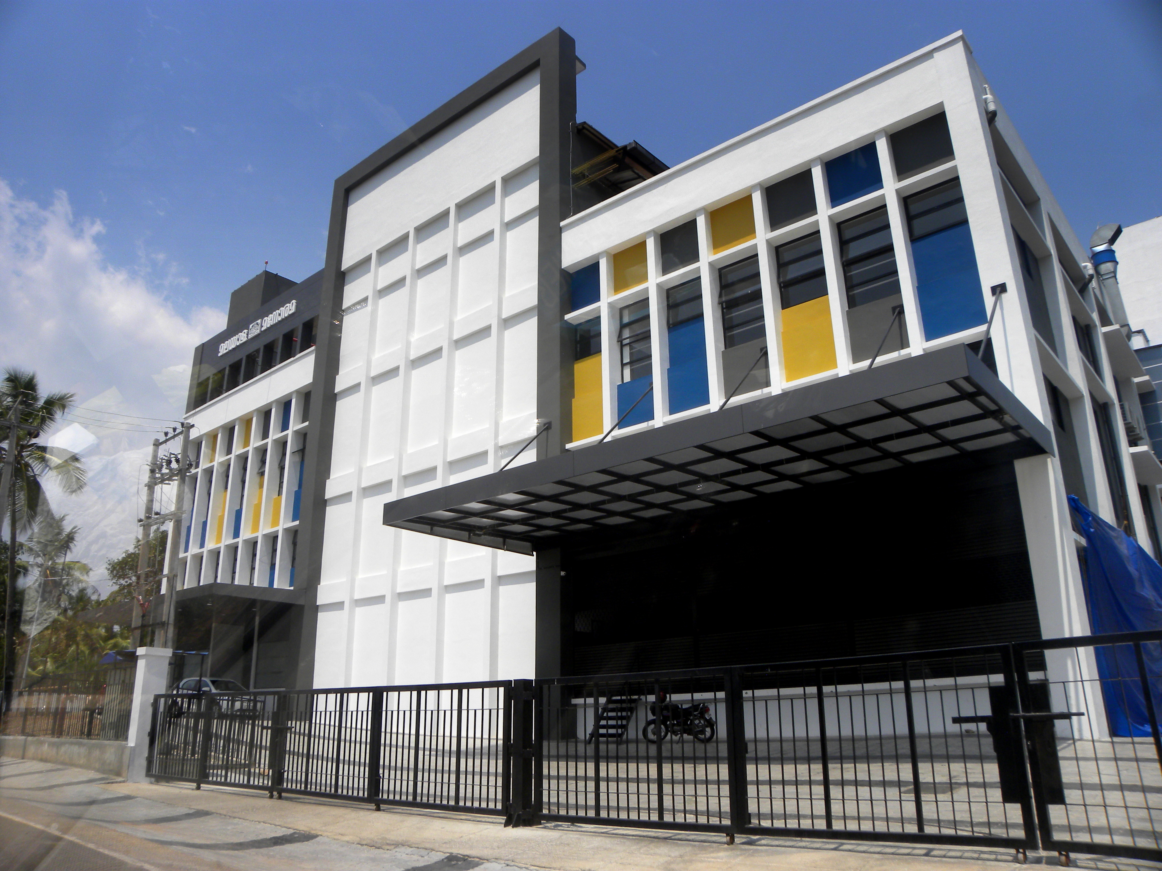 Malayala Manorama is one of the famous Malayalam dailies. This is their second press for Kollam city.